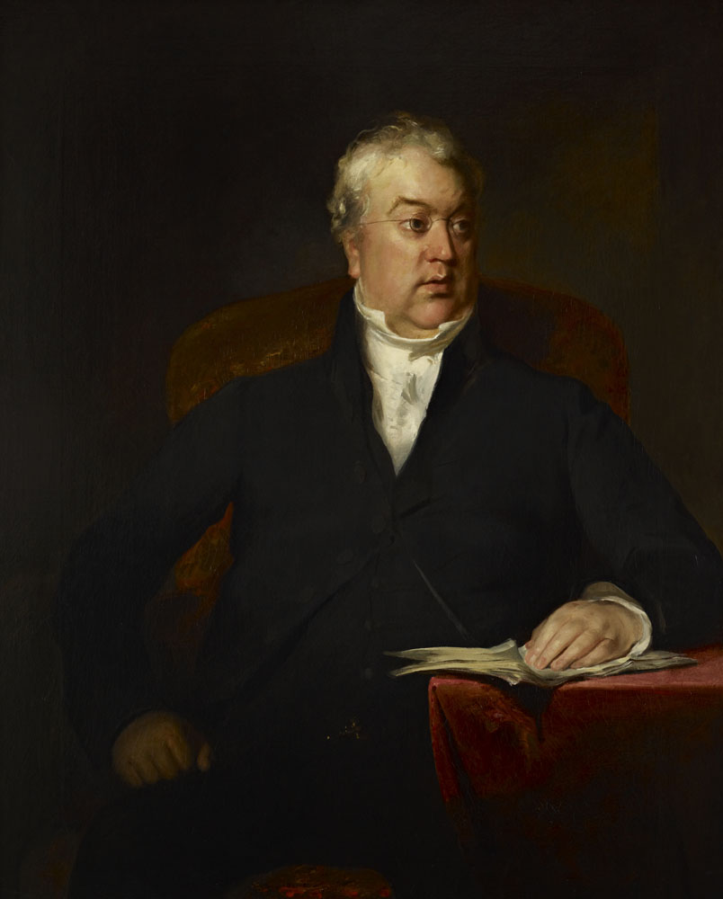 Portrait of Patrick Robertson, Lord Robertson (1794–1855), Scottish judge.